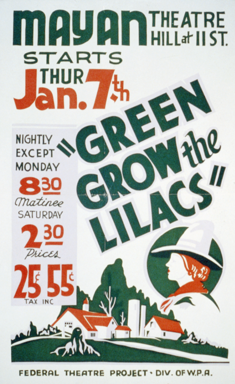 WPA Poster for Green Grow the Lilacs: produced by the Federal Government.